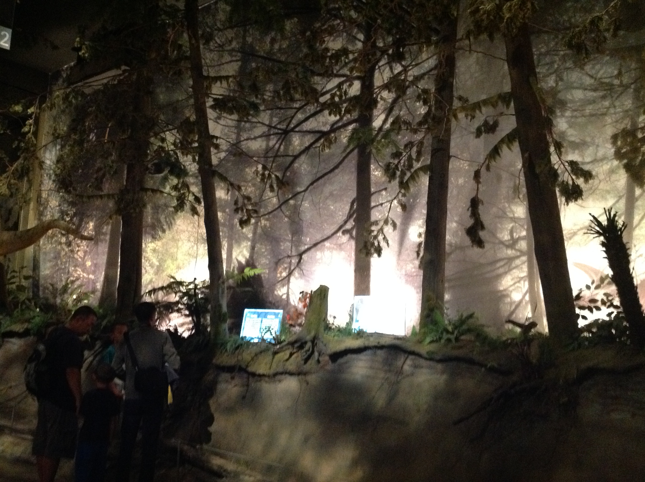 Royal Tyrrell Museum.Flora Late Cretaceous Alberta was lush with vegetation, especially along waterways.